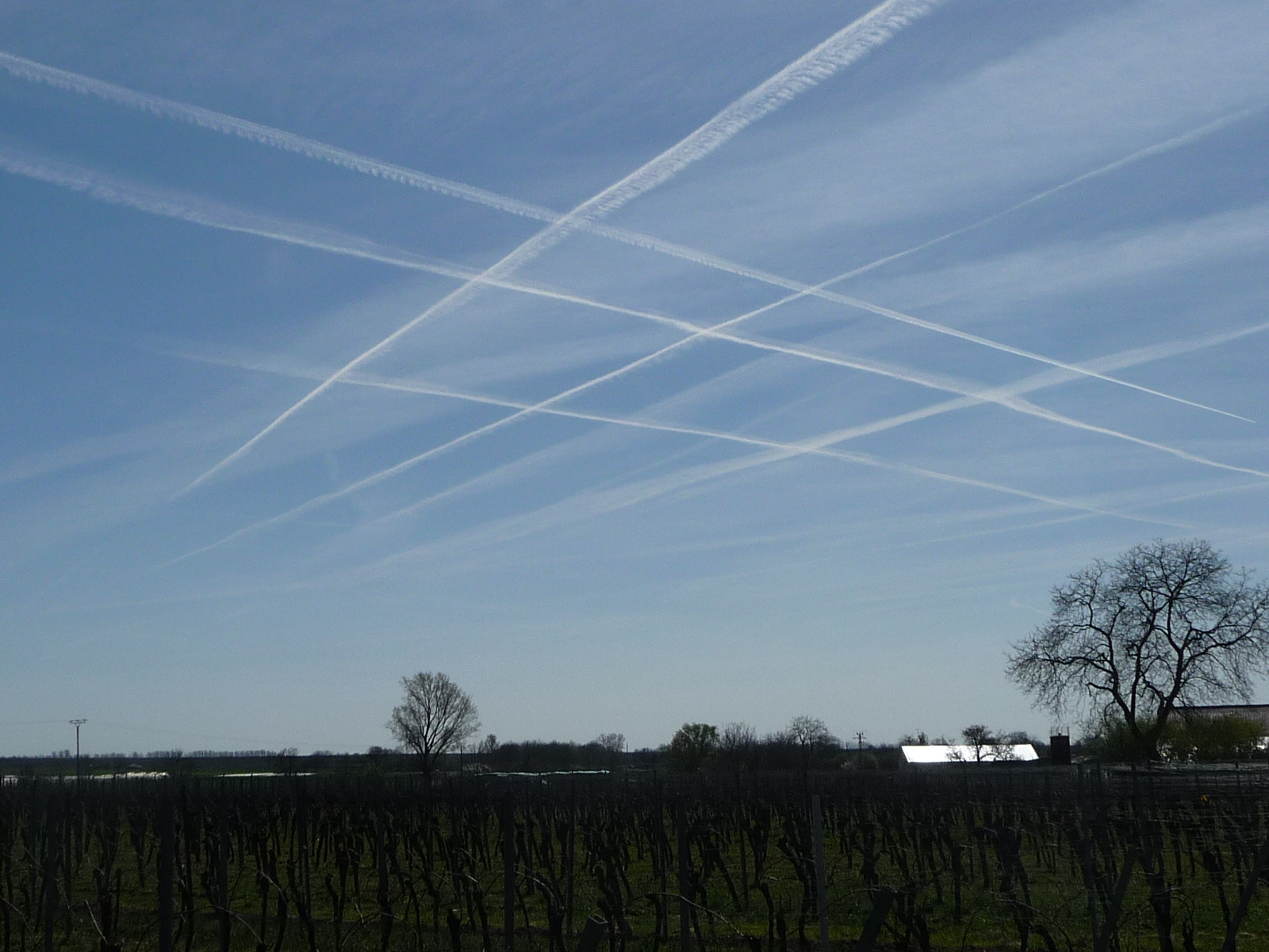 Lachen-Speyerdorf in Rhineland-Palatinate, Germany